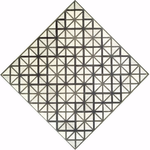 Lozenge with Grey Lines